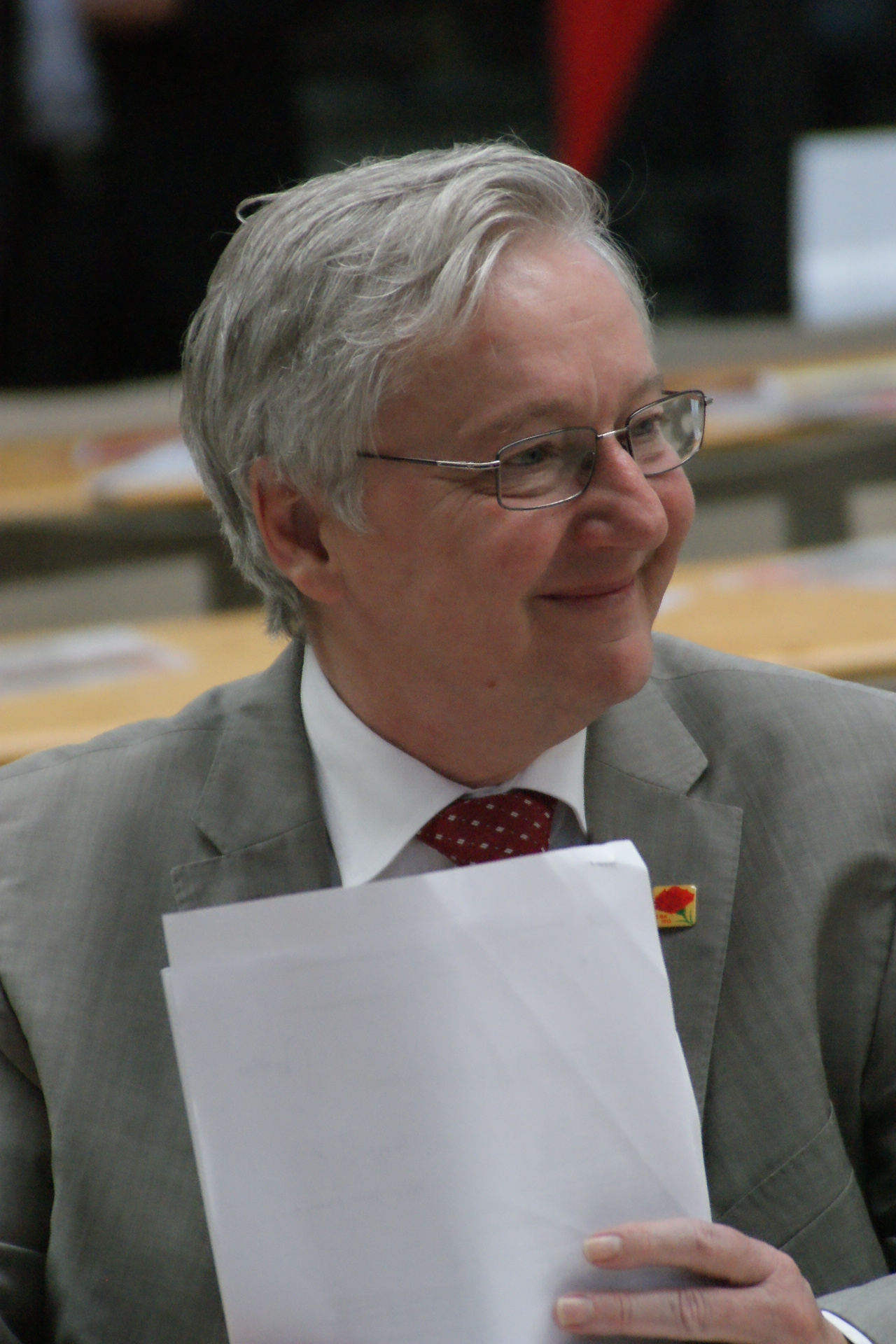 NorbertBallhaus